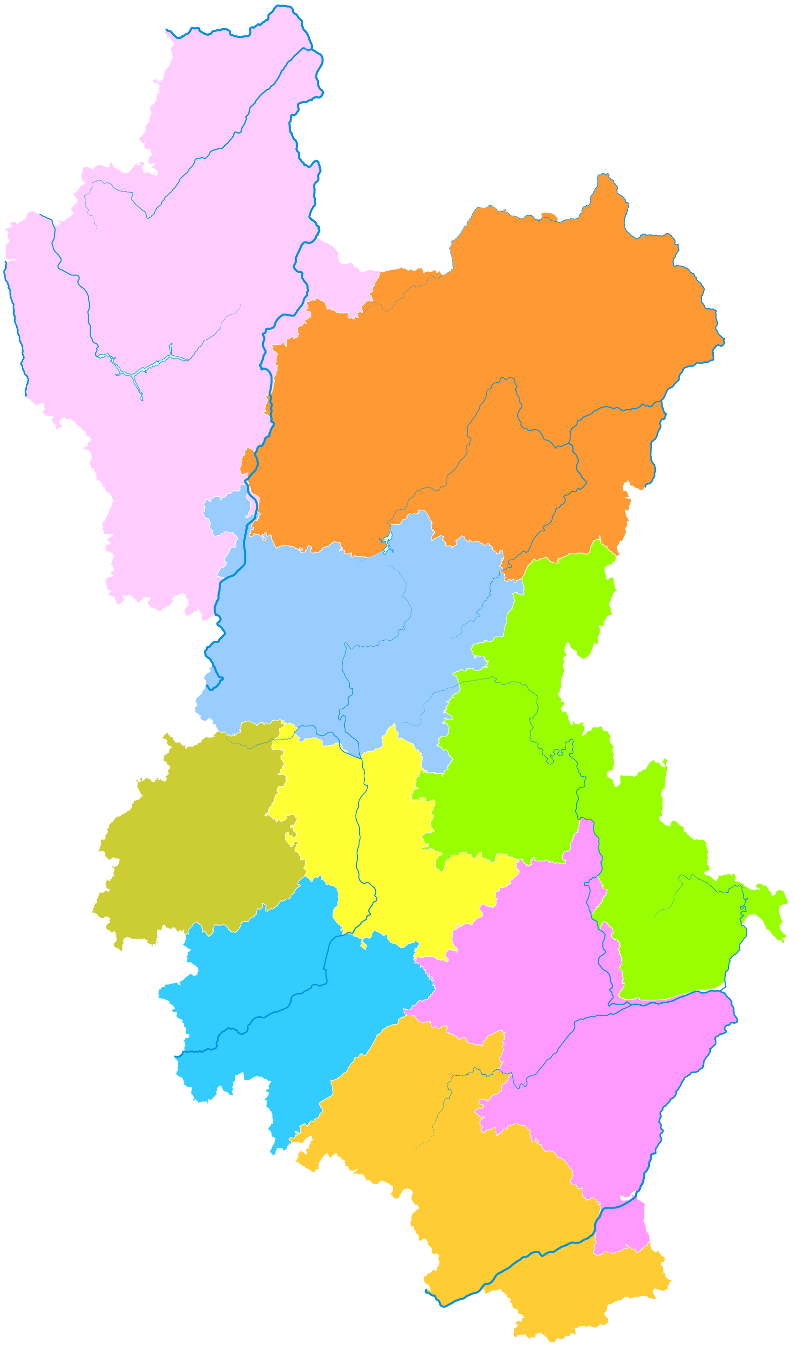 administrative divisions of Qujing City, Yunnan, China